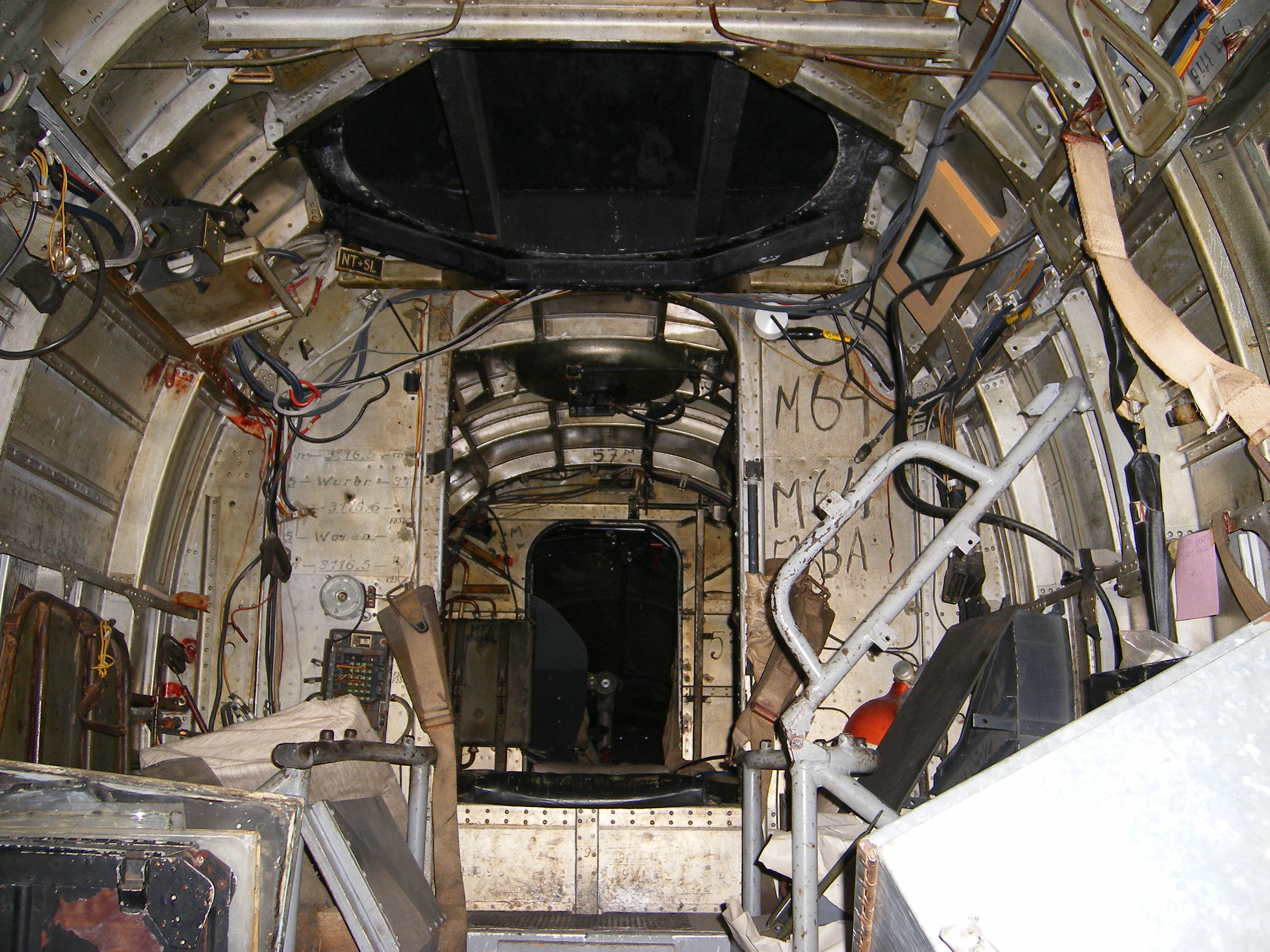 Inside Wk Nr 701152. The upper gunners position was removed to create more room for the Paratroops.